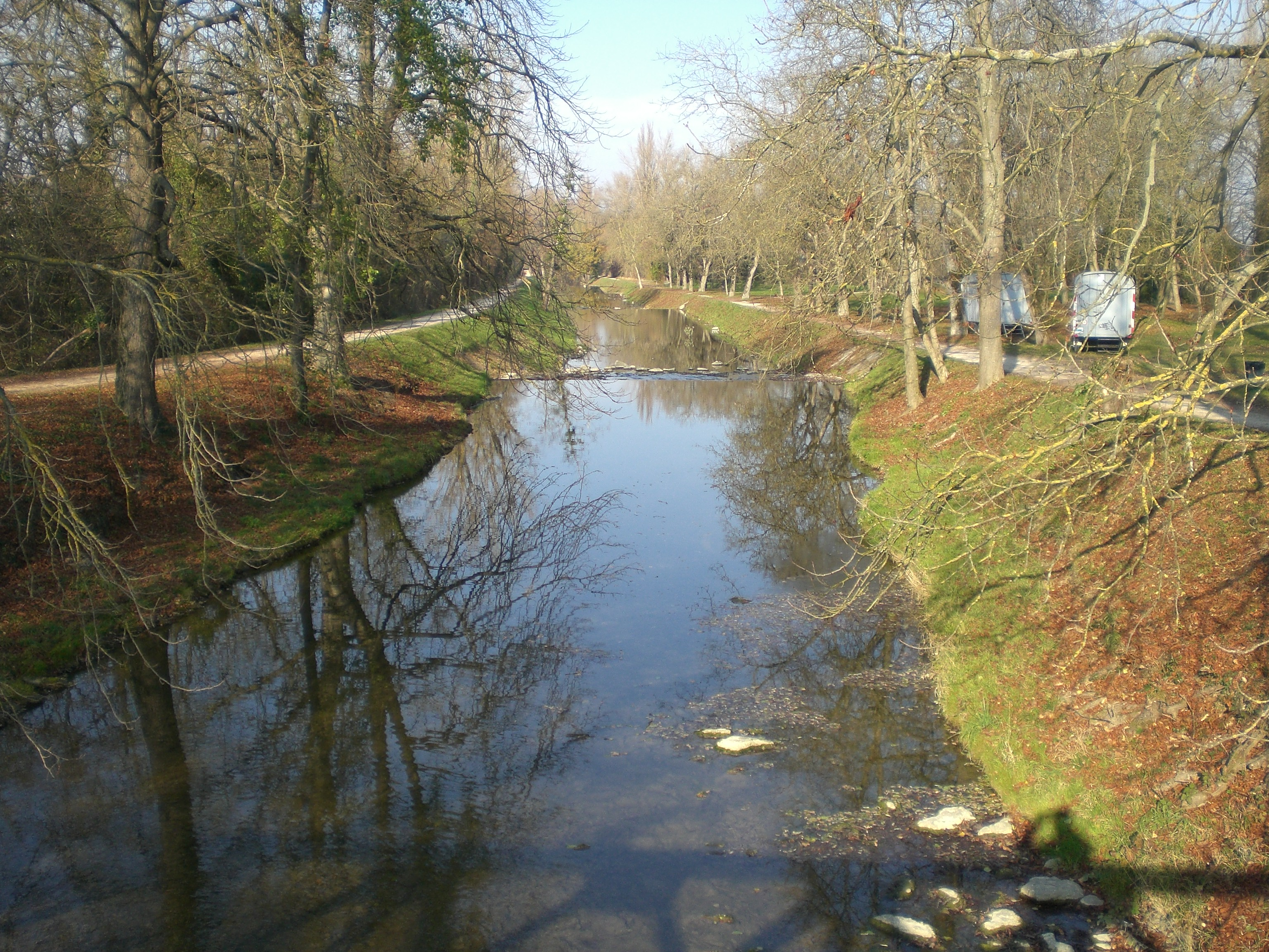 The Aire river, near the French-Swiss border